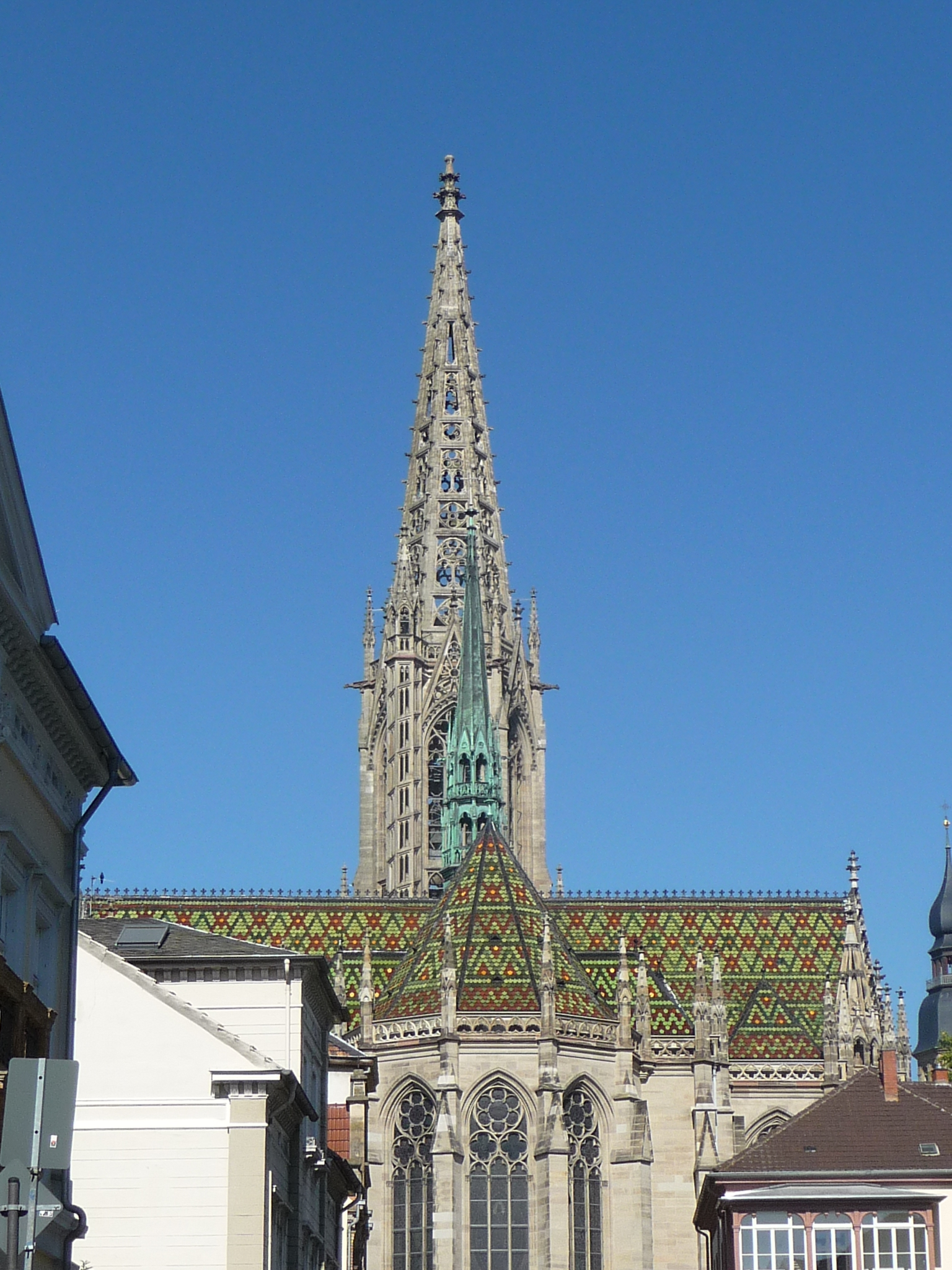 protestant memorial church in Speyer, Germany